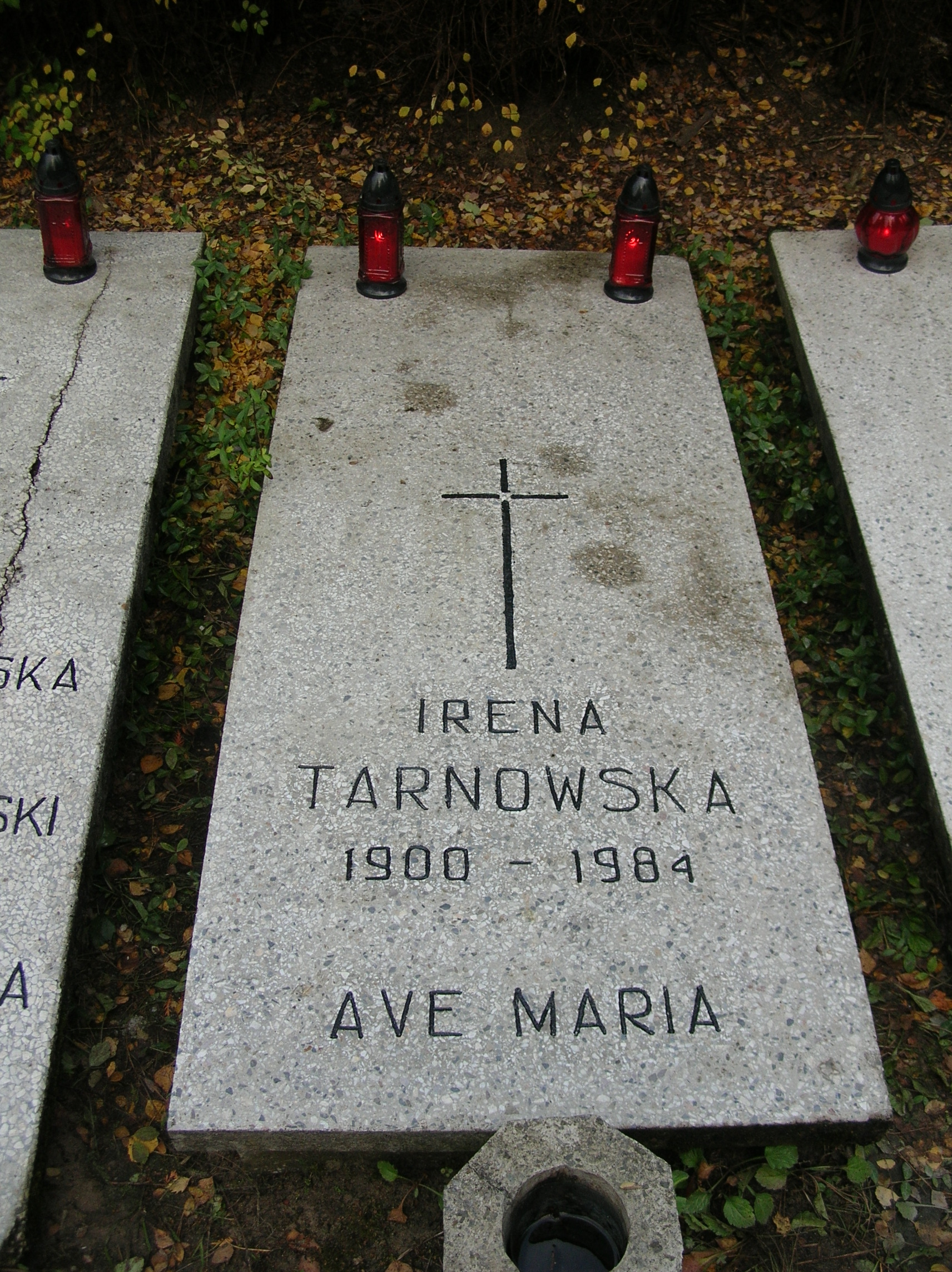 Tomb of Irena Tarnowska, Poznań